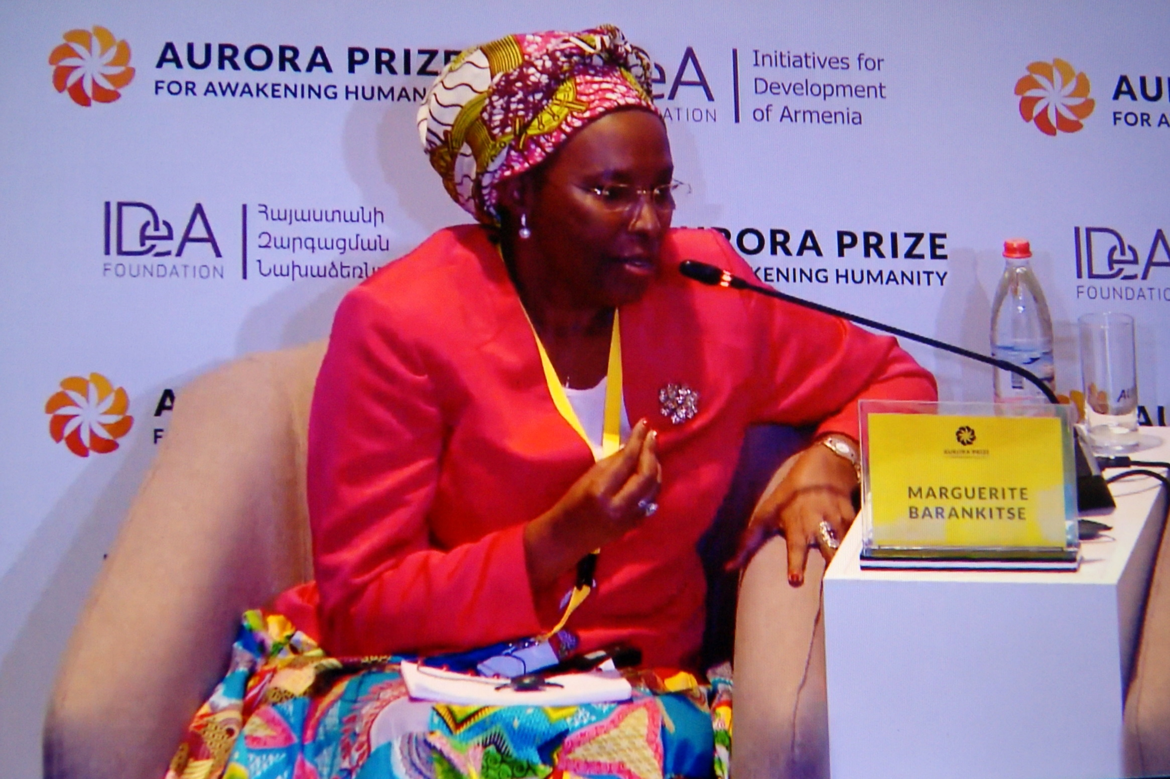 Marguerite Barankitse in Yerevan at Matenadaran, during the panel Aurora dialogs, before the ceremony of Aurora prize